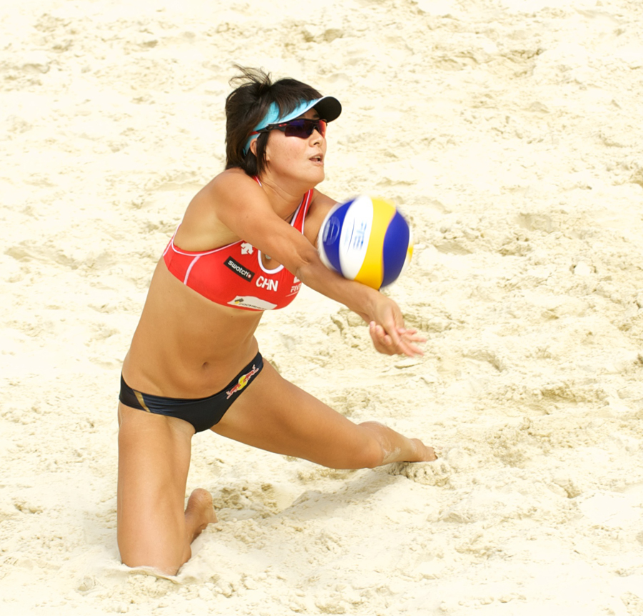 Grand Slam Moscow 2012